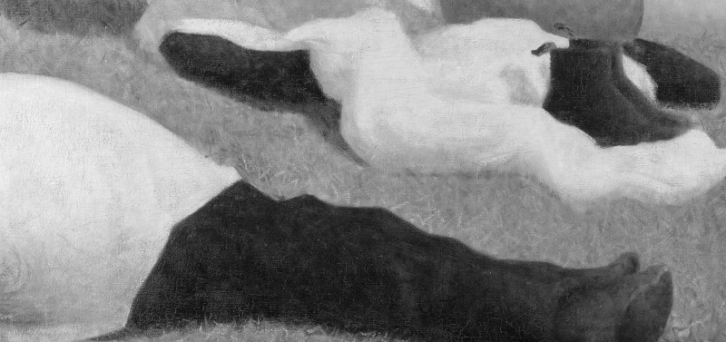 clothes in greyscale